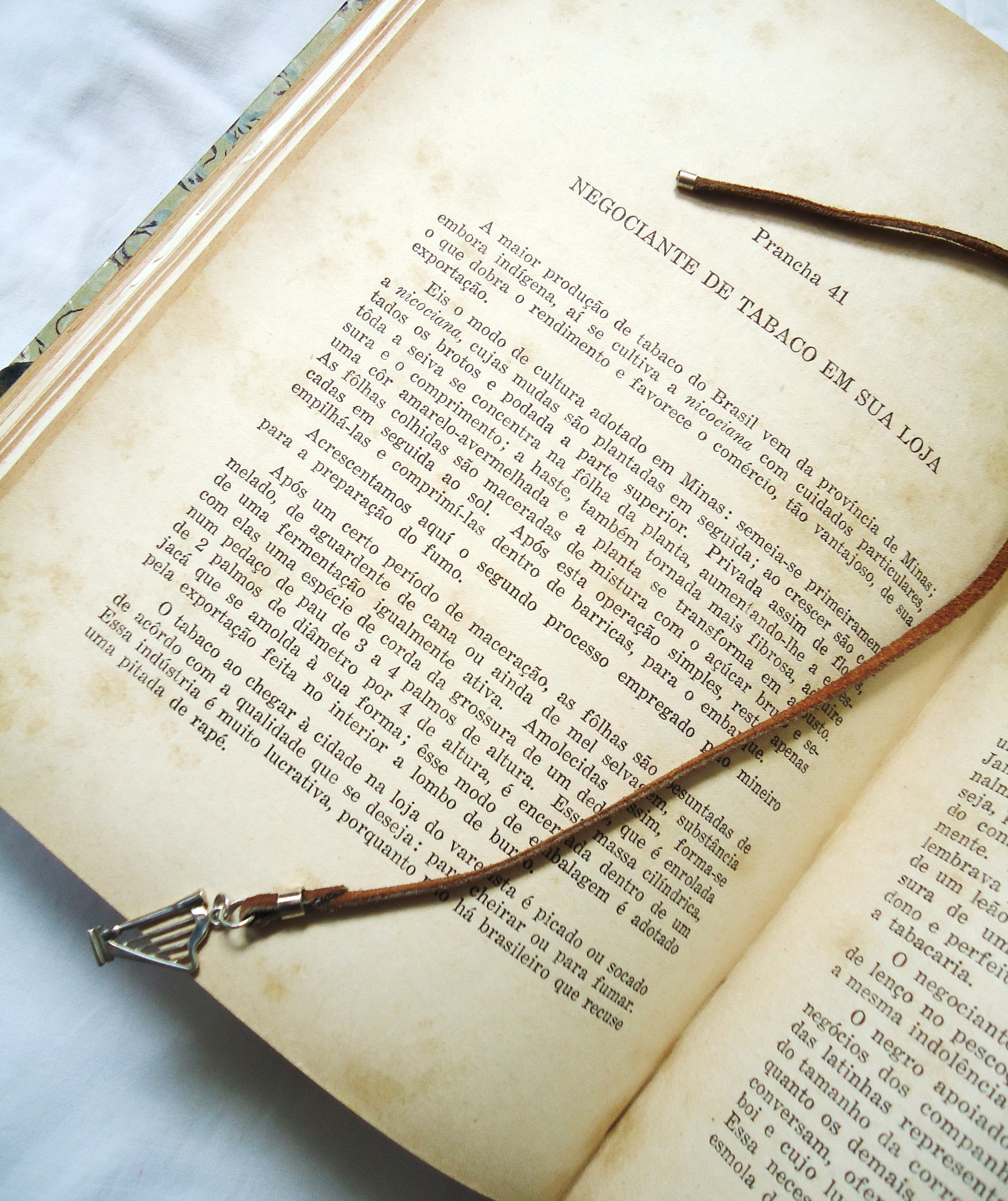 Silver and chamois leather strip bookmark. Made by Mauro Cateb, Brazilian jeweler and silversmith.